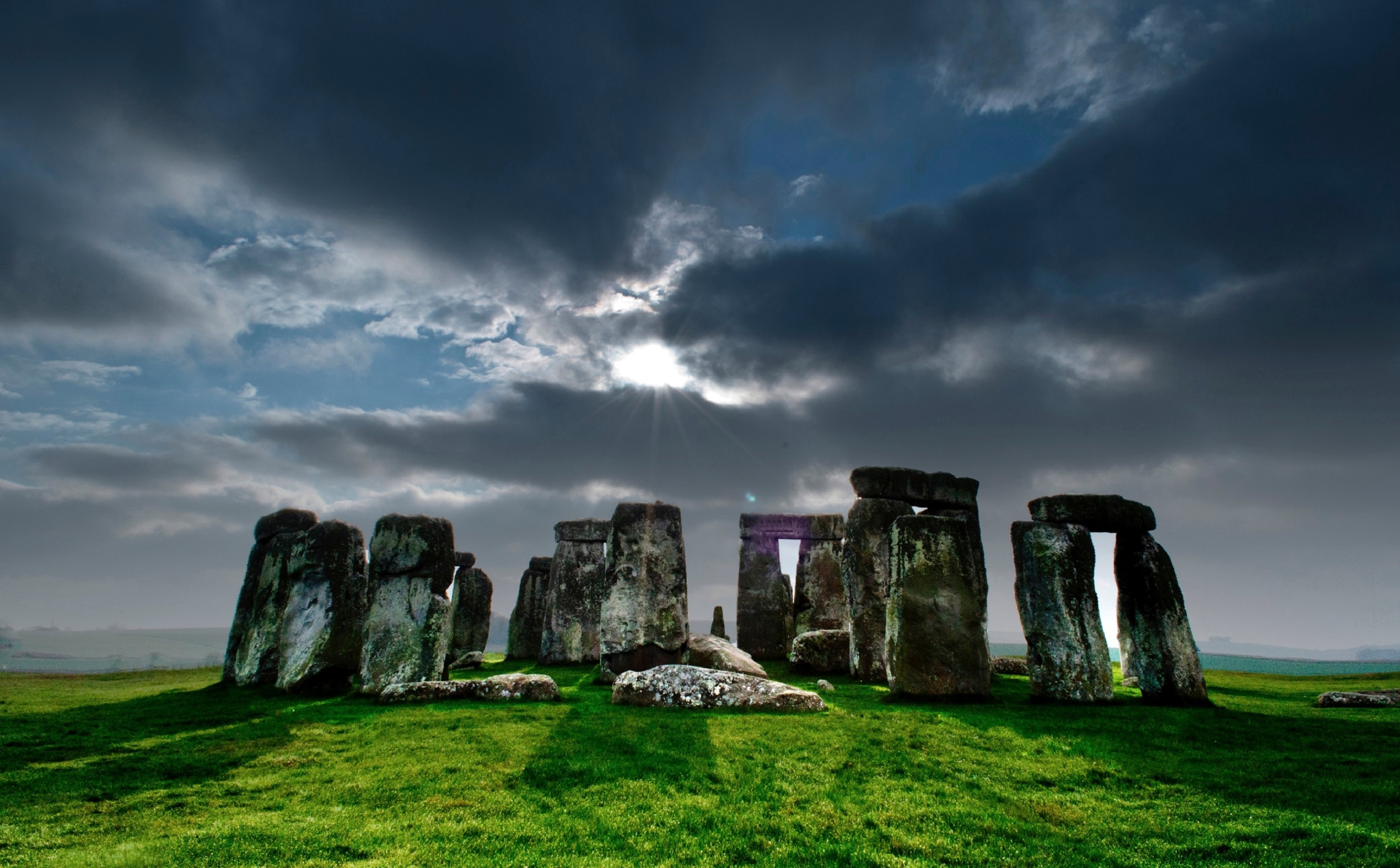 This pre-historic site is a magnificent treat for any traveller. Situated in Salisbury, UK, the Stonehenge attracts most of the tourists too, who visits the UK. The formation of the stones in this manner is yet to be found out.